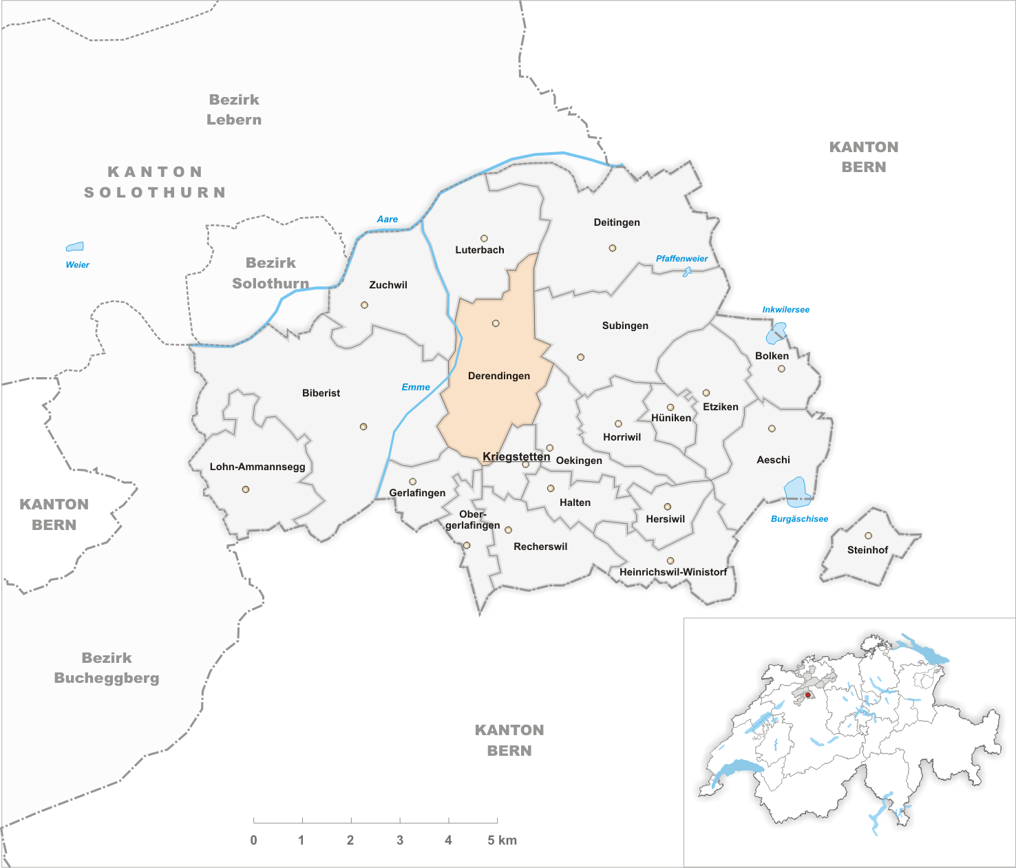 Municipality Derendingen